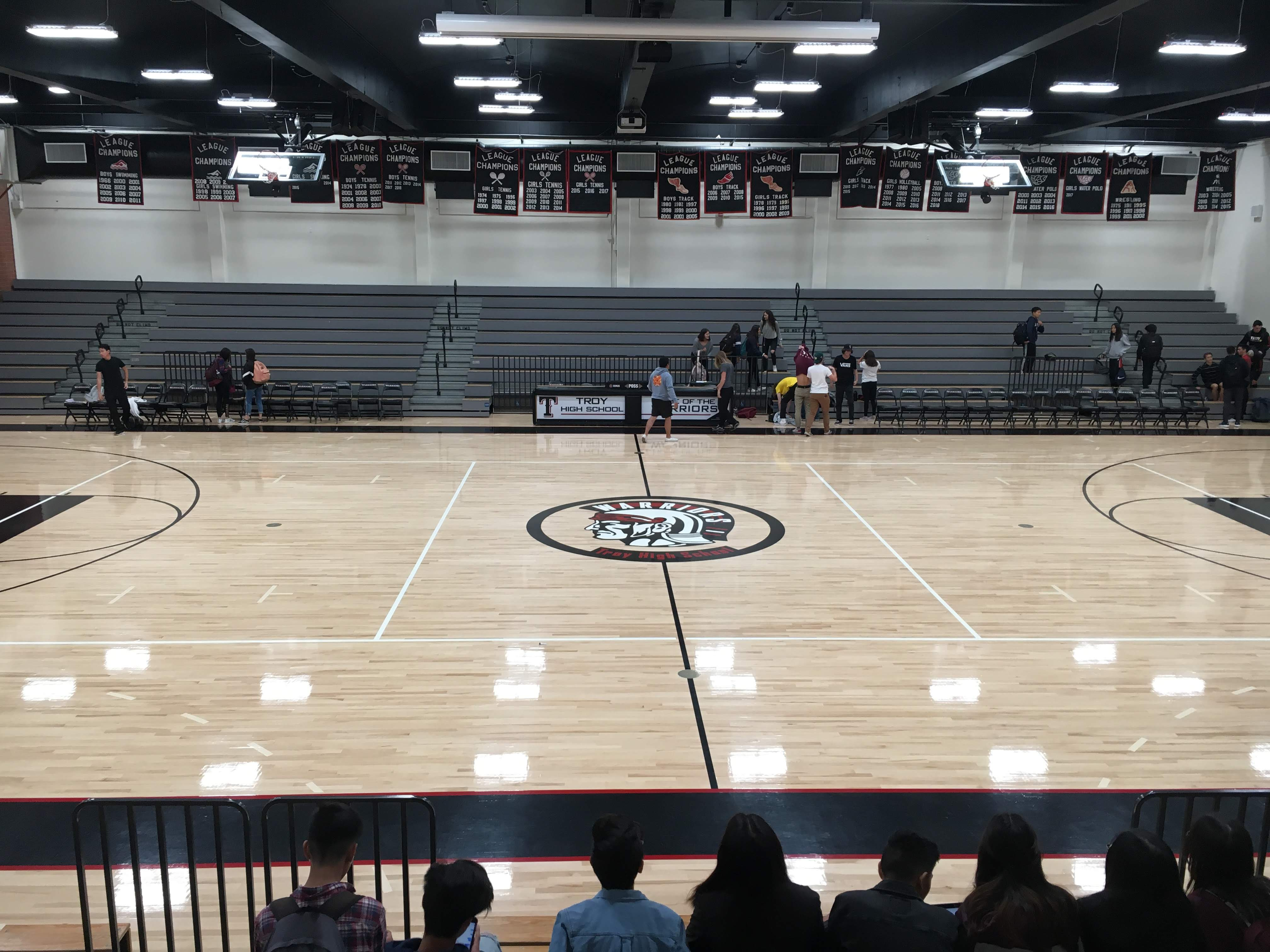 Inside the Troy High School North Gym, renovated in 2018.